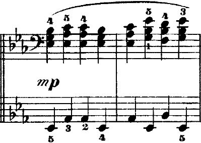 Secondary theme of Op 37, No 1